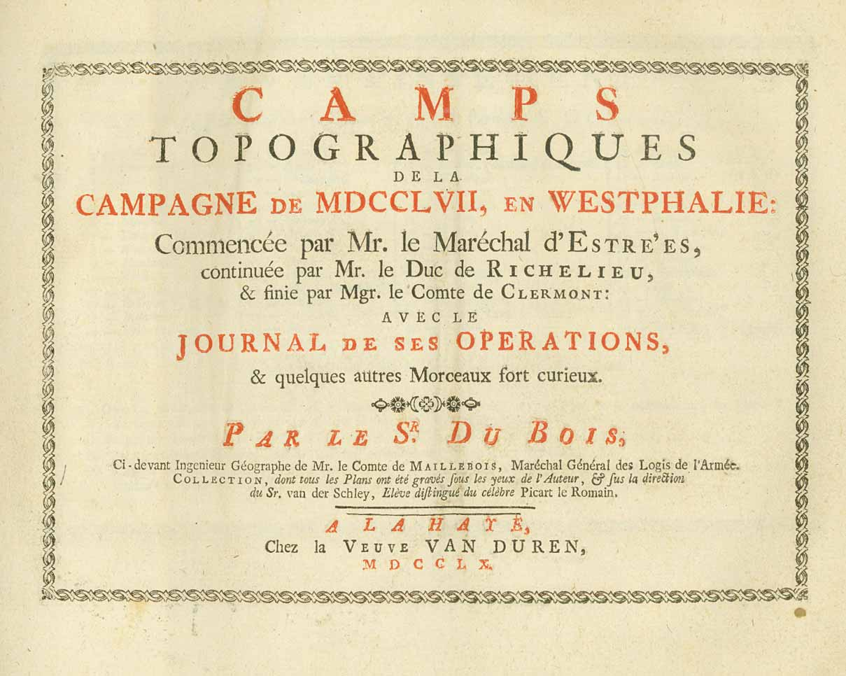 Jacobus van der Schley